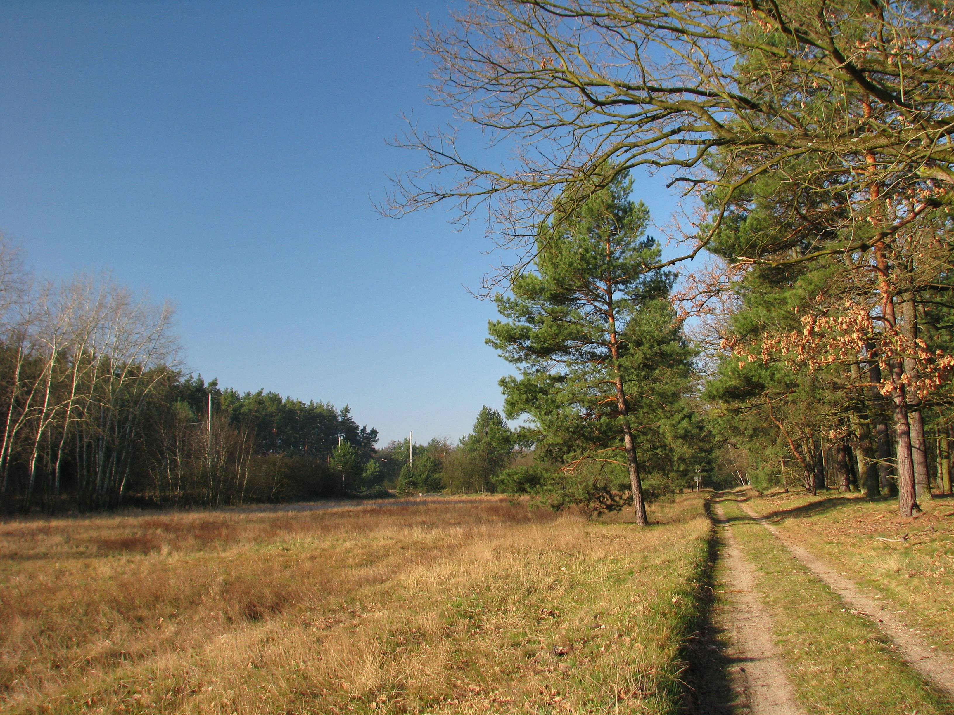 Váté písky in spring